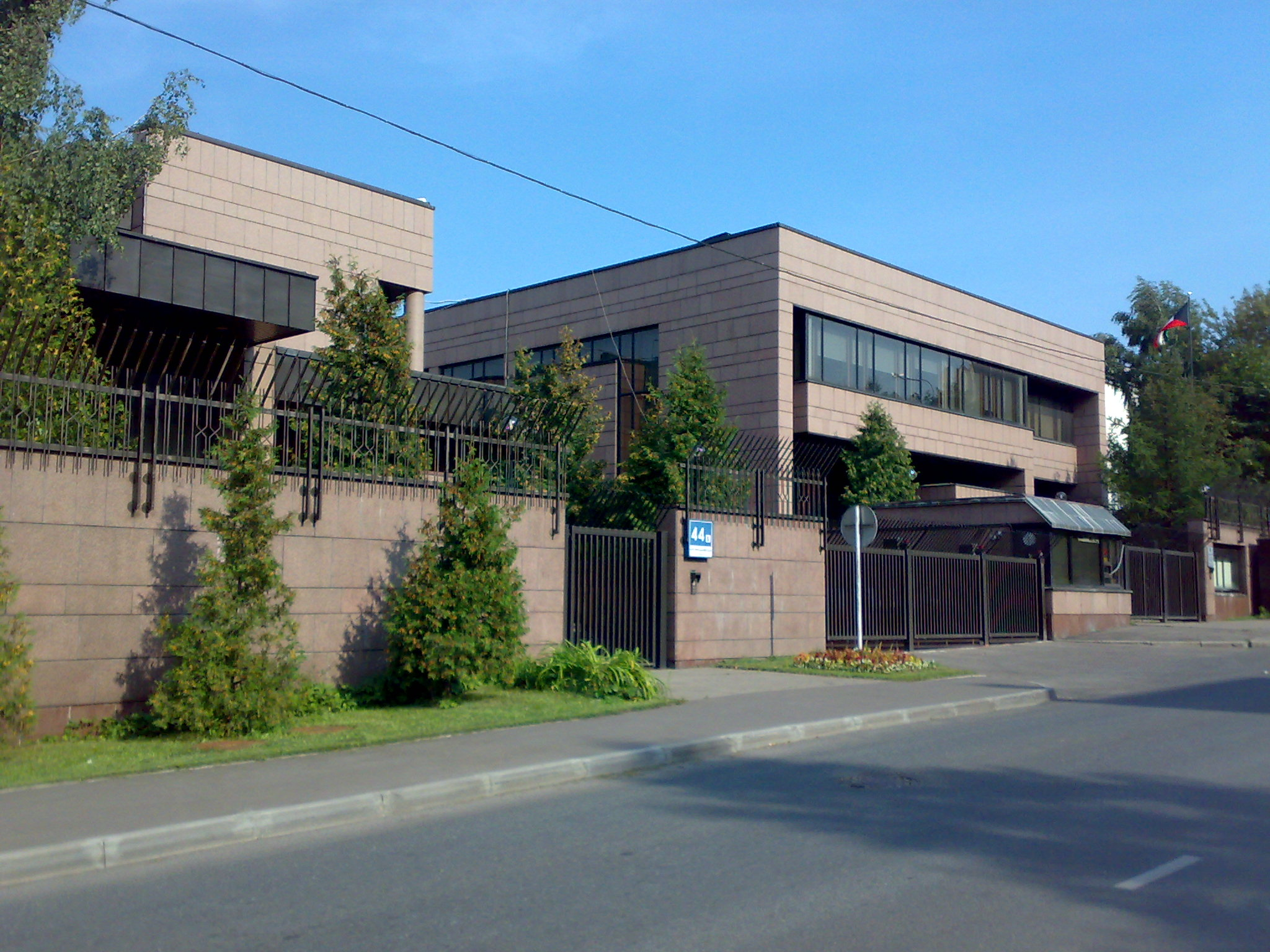 took this image using my mobile phone, on 5 September, 2008. The embassy of Kuwait, in Moscow.